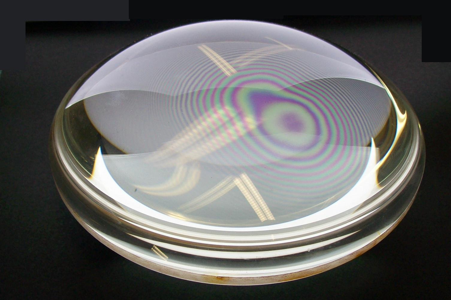 "Newton's rings" interference fringes between 2 plano convex lenses, placed together with their plane surfaces in contact. The rings are created by interference between the light reflected off the two surfaces, caused by a slight gap between them, showing that these surfaces are not precisely plane but are slightly convex.